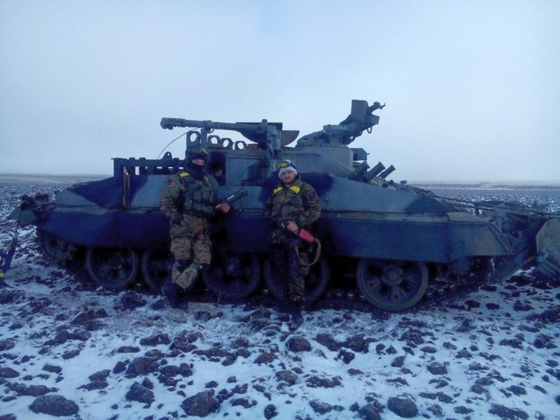 703rd Engineer Regiment in combat (Ukraine)